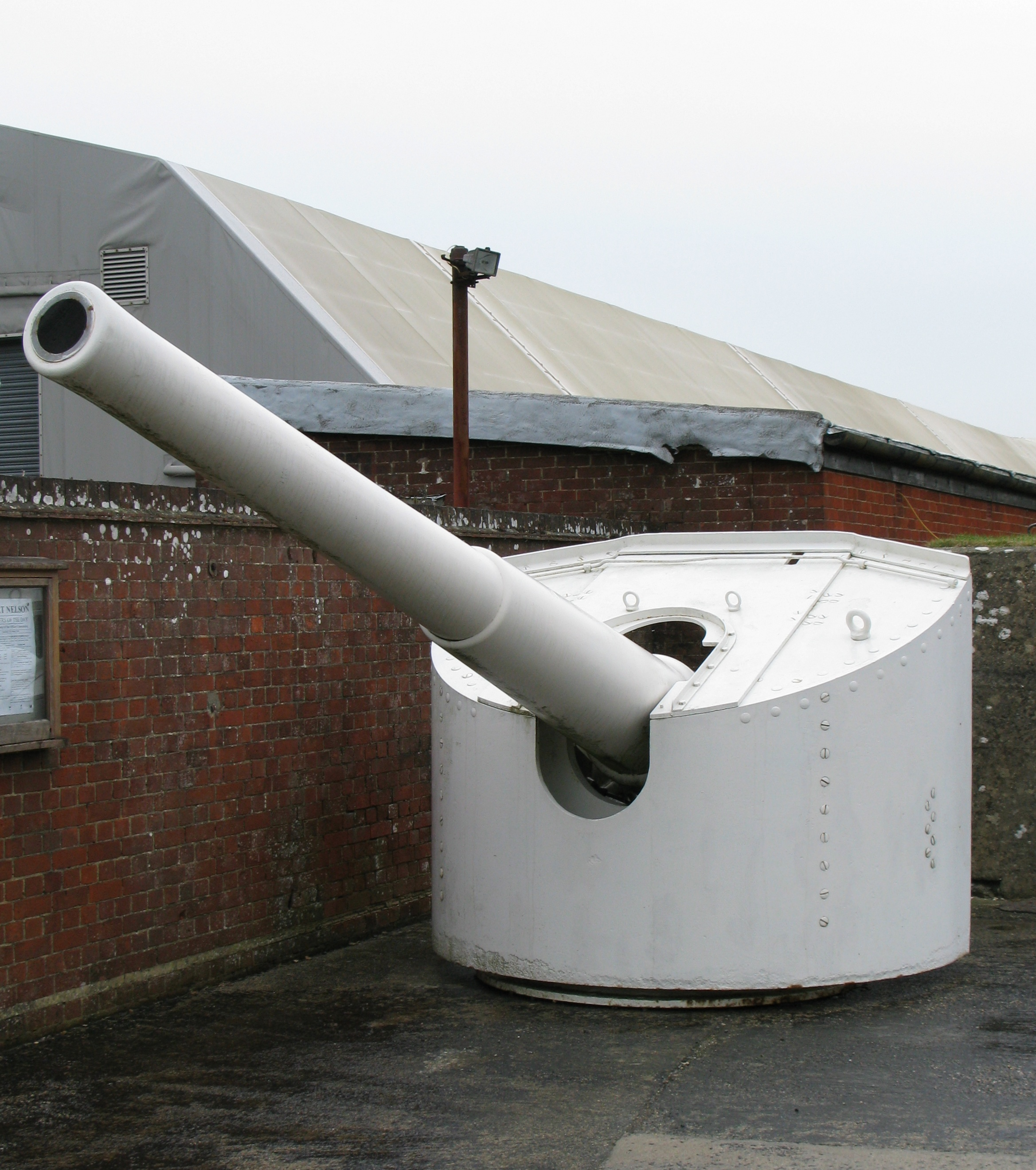 Photo of a QF 6 inch Mk III naval gun from HMS Calypso. On display at Fort Nelson, Portsmouth. It was built in 1893 and was built by the Elswick Ordnance Company. For rear view see File:6 inch gun from HMS Calypso rear.JPG.